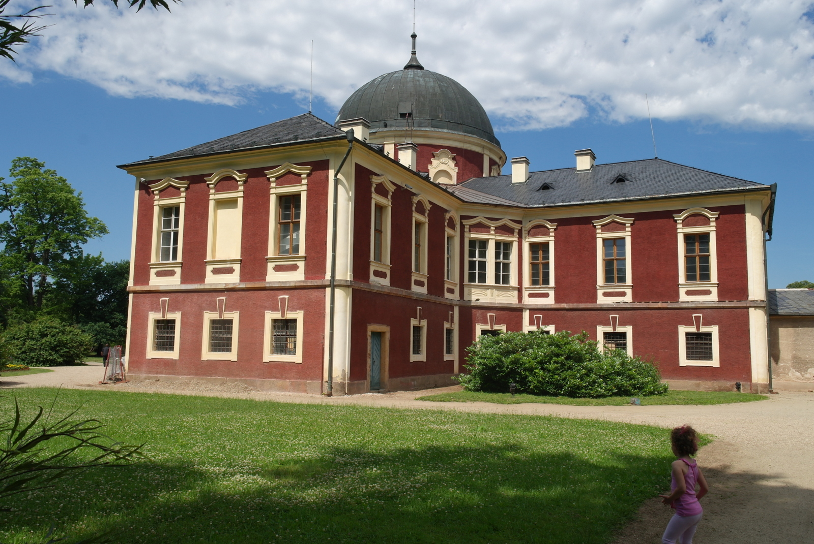 Castle Veltrusy Veltrusy and Všestudy, Veltrusy. View from the south.